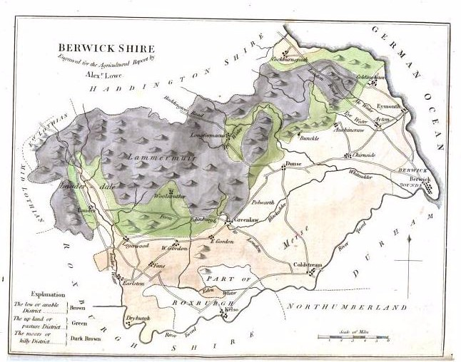 Geological map of Berwickshire, from General View of the Agriculture of the County of Berwick (1794) by Alexander Lowe.